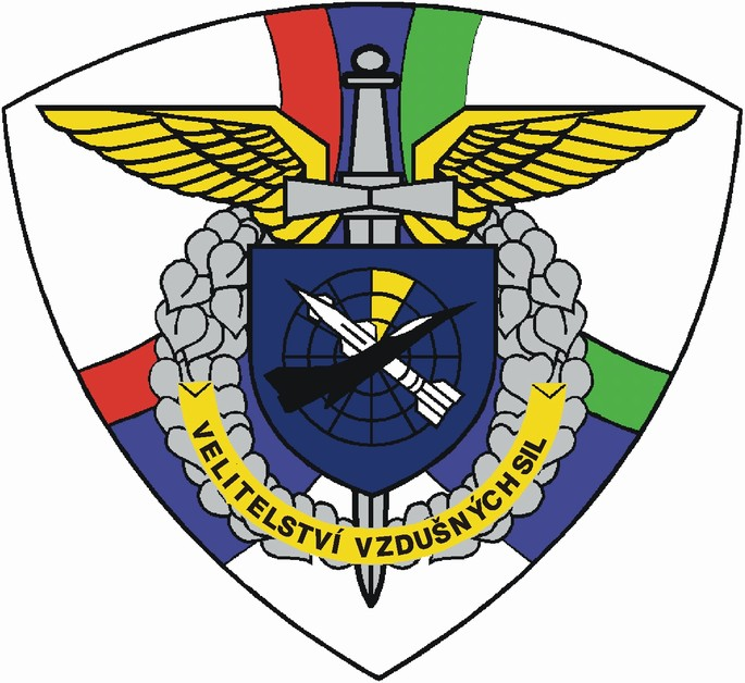 Emblem of the Air Force of the Czech Republic.